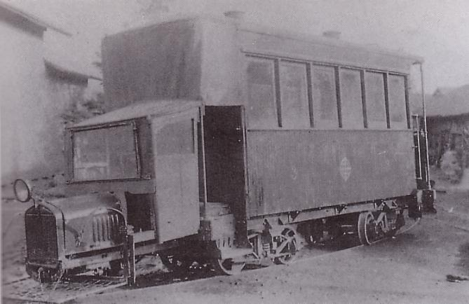 Gasoline railcar used in Kakuda Tramway（角田軌道）.